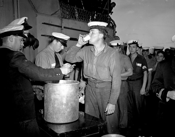 Splicing the mainbrace: Ordinary Seaman Ernest Weir receives an extra rum ration during Victory over Japan celebrations aboard H.M.C.S. PRINCE ROBERT off Sydney, Australia, 16 August 1945.